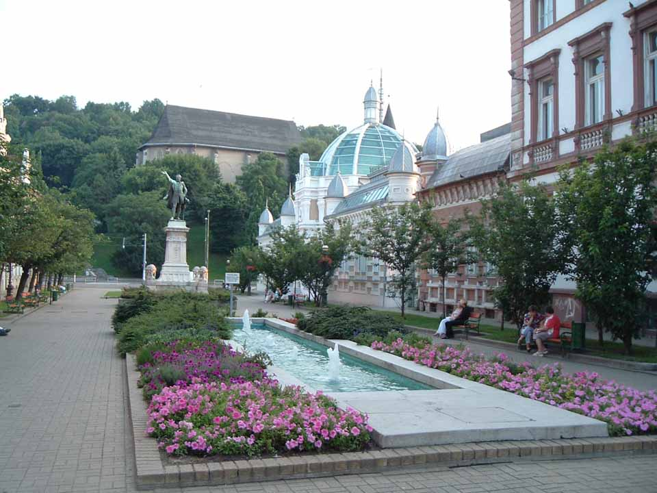 The Erzsébet Square in Miskolc, Hungary